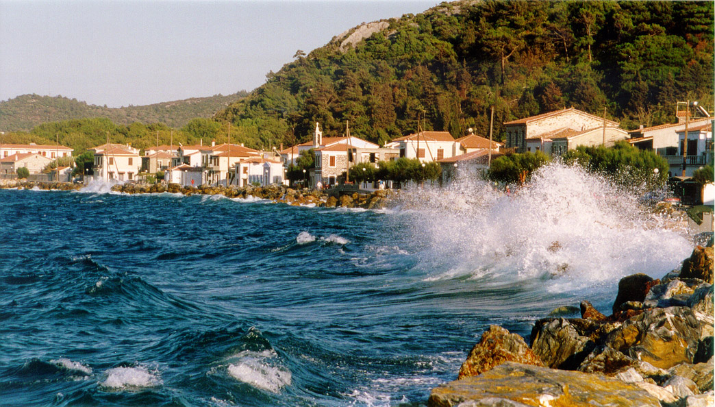 Agios Konstantinos, Samos, about 1980